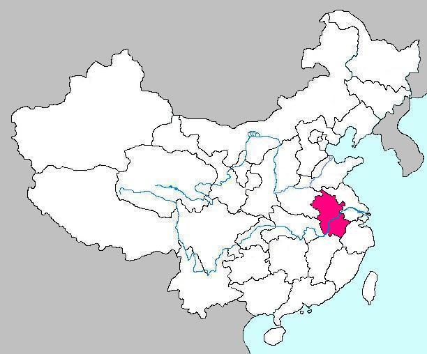 Maps of Anhui Province of China